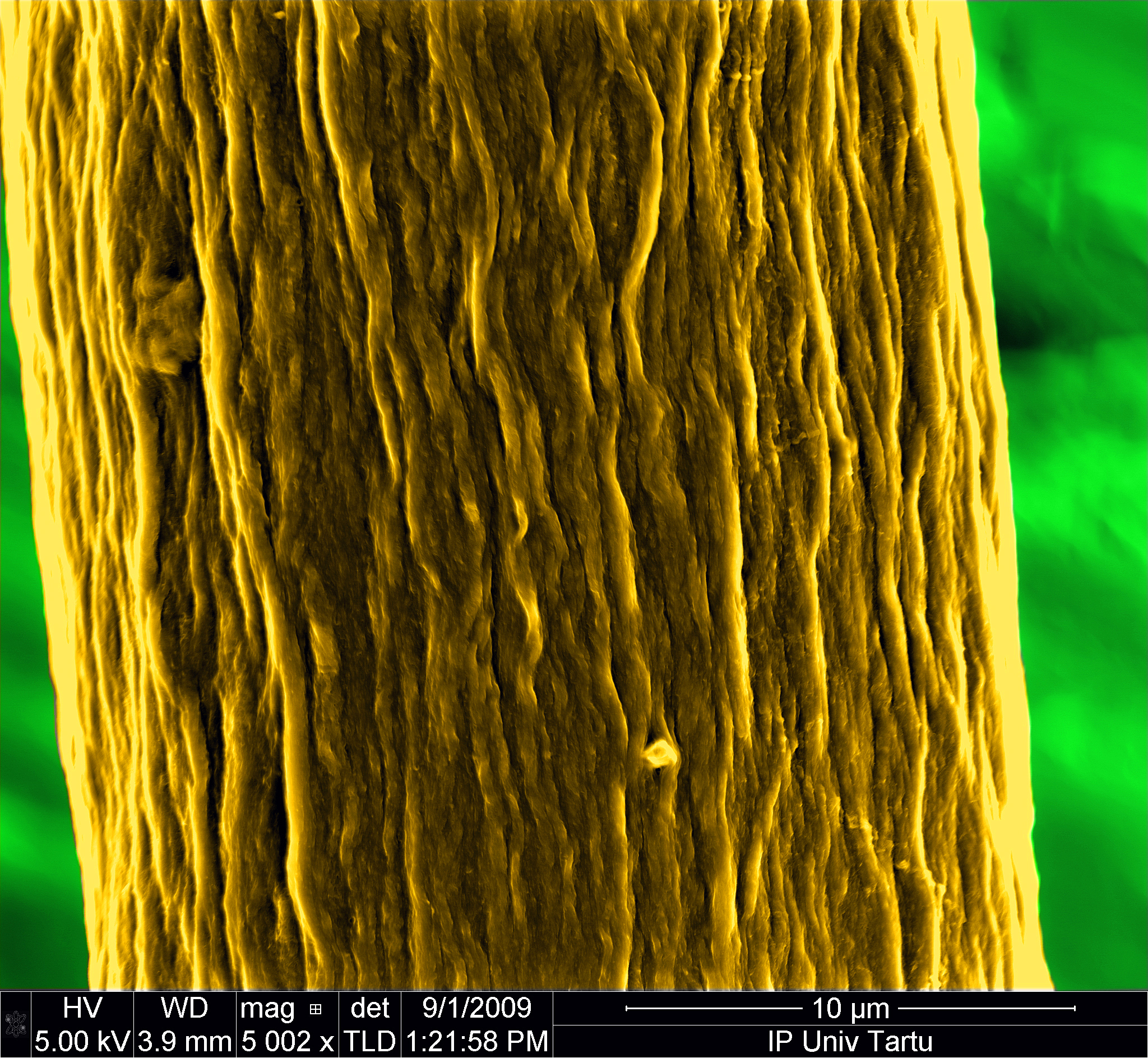 CNT fibre